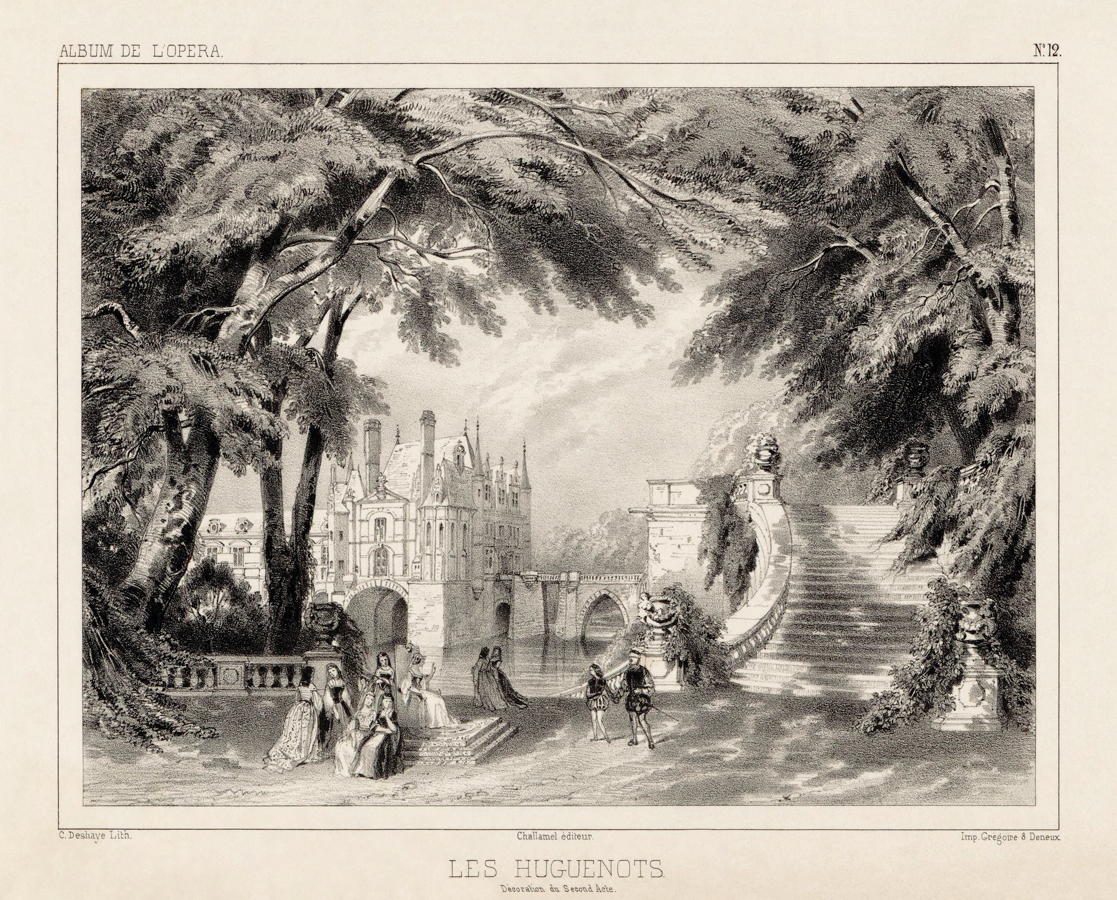 Set for Act II of Giacomo Meyerbeer's Les Huguenots in the première production of 29 February 1836 at the Académie Royale de Musique - Le Peletier. No. 12 from Album de l'Opéra. Lithograph, 22.2 x 29.5 cm